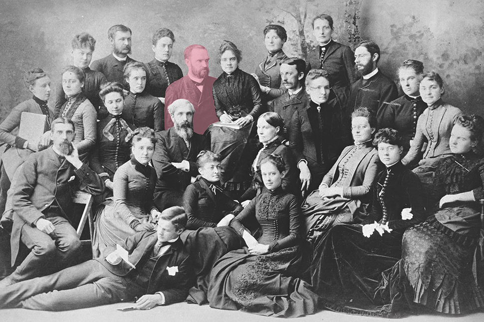 1887-1888 class School of Library Economy at Columbia College "Top row: Annie Eliza Hutchins, Eliza S. Talcott. Second row: Kate Bonnell, Frank Chauncey Patten, Janey Elizabeth Stott, Melvil Dewey (faculty), Florence Woodworth, George H. Baker (faculty), Frances S. Knowlton, Walter Stanley Biscoe (faculty), Lilian Howe Chapman, Lillian Denio. Third row: Mary Salome Cutler (faculty), Harriet Sherman Griswold, Annie Brown Jackson, May Seymour, Richard F. Armstrong (honorary), Mrs. George Watson Cole (honorary), Mrs. Annie Dewey (honorary), Eulora Miller, Harriet Converse Fernald. Fourth row: George Catlin, Mary Wright Plummer, Martha Furber Nelson, Harriet P. Burgess. Reclining: George Watson Cole." per